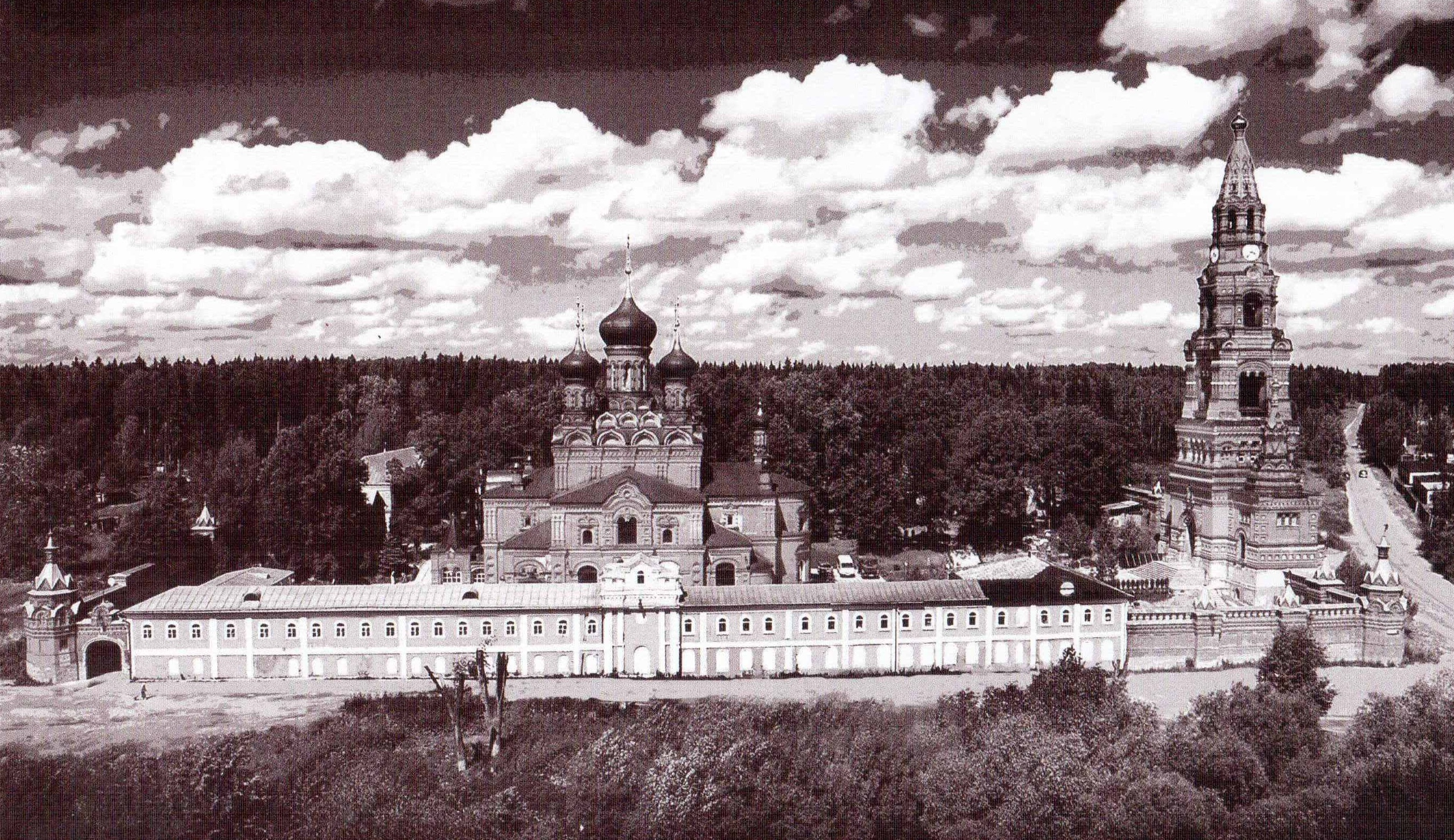 The Chernigovsky skit's southern view